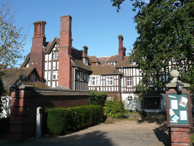 The Sea Marge Hotel is located on the High Street within the village of Overstrand, Norfolk, England. The building was originally built as the country home of Sir Edgar Speyer.